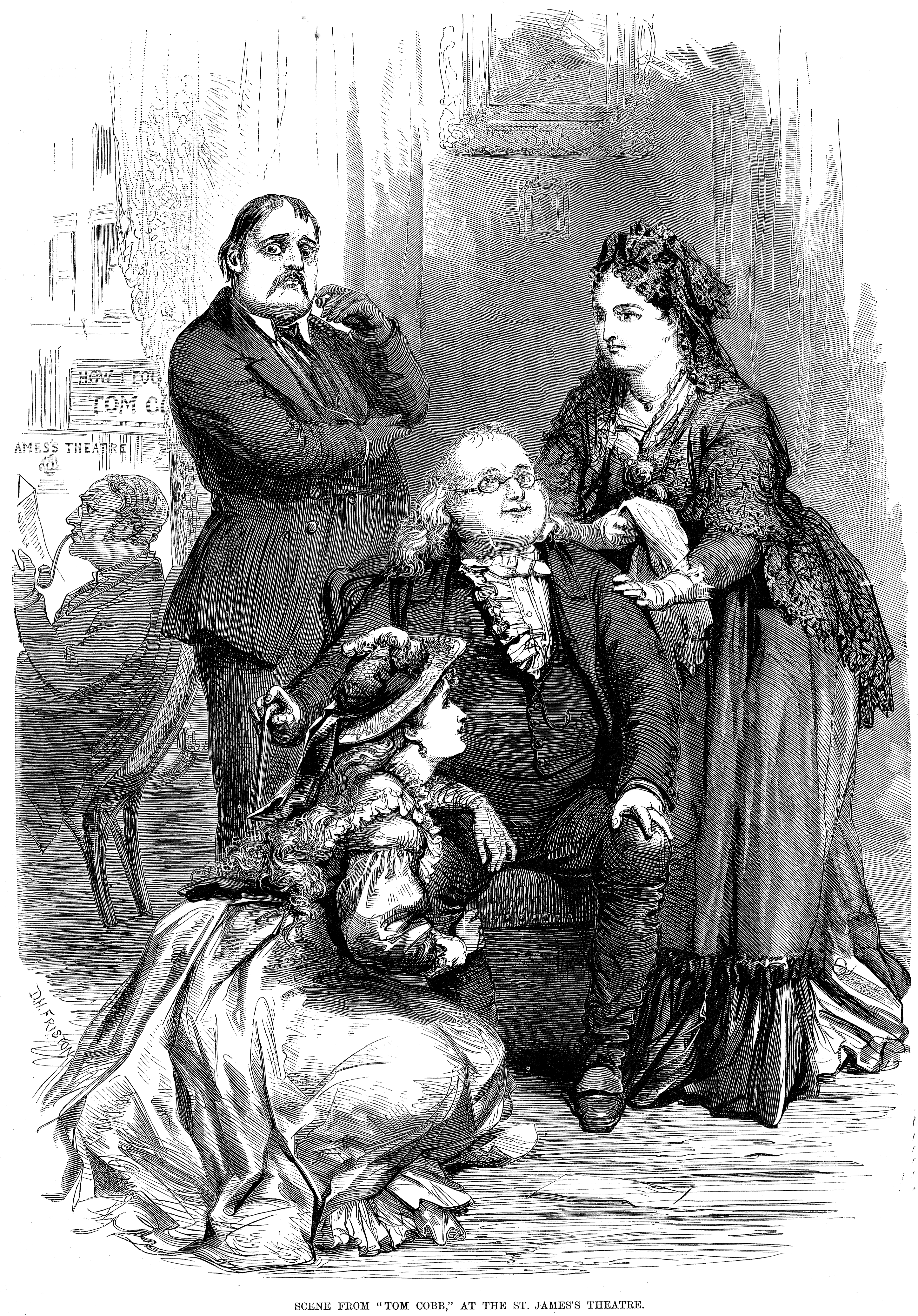 Engraving of W. S. Gilbert's Tom Cobb, showing the original production (with a few probable liberties, such as the balcony looking out upon the St. James Theatre advertising Tom Cobb). The scene is the opening of Act III: The much-praised Effingham family dominate the scene, with Tom Cobb himself smoking on the balcony.